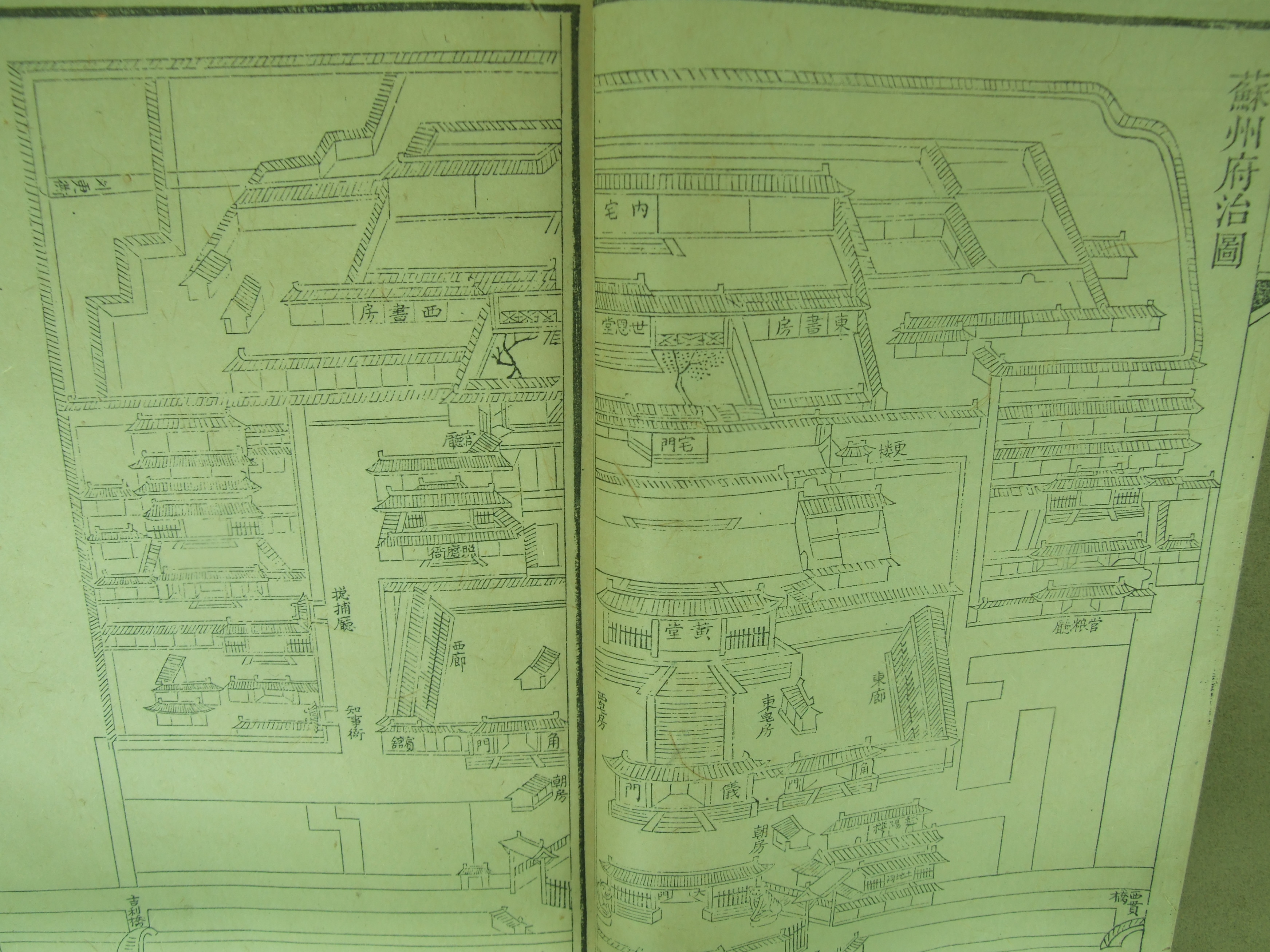 An old map of Suzhou painted in Qing Dynasty (The map is colleted in a museum in Humble Administration Garden, Suzhou)